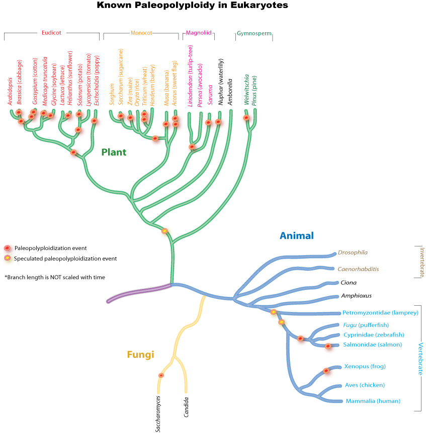 A Summary of Known Paleopolyploidy. Red dot indicates well-supported paleopolyploidy and Yellow dot indicates putative case. Branch length do NOT scale to time. Created by Peter Zhang using Adobe Illustrator Ref: (Adams & Wendel, 2005); (Cui et. al, 2006); (Wolfe, 2001). Very interesting chart, but I am having trouble reading the words, especially the ones in blue. Maybe you could increase the font size a couple of points, and use a cleaner type, like Ariel (the one used looks like Times Roman which is always harder to read when it's small). As for the vertical type at the top, I am tired of trying to hold my monitor sideways. Perhaps you could print the list at the side in a row, and just leave a coded reference at the top. Otherwise, thanks. Myles325a (talk) 22:08, 26 December 2008 (UTC)